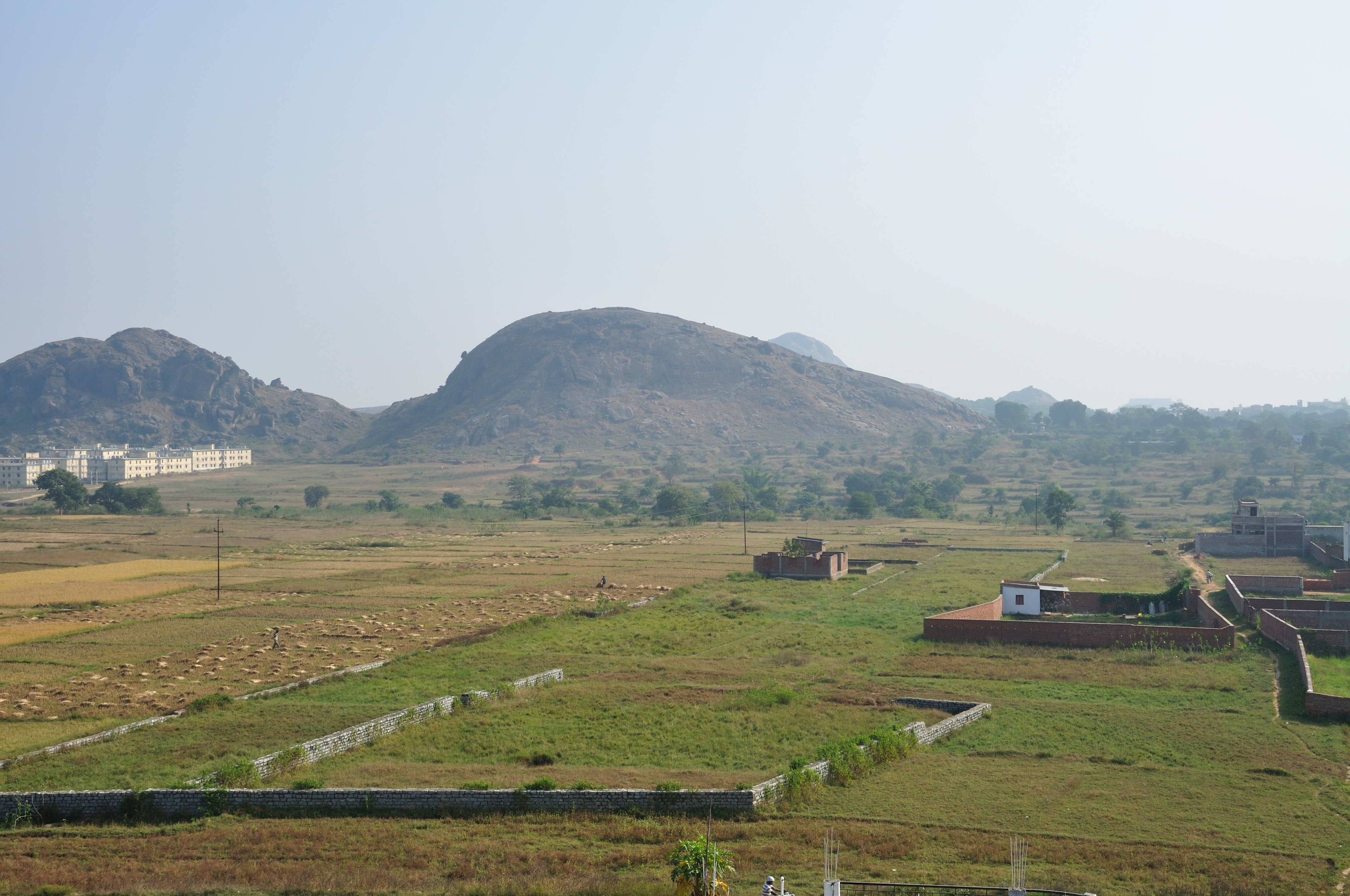 Chiraundi village of Morabad, Ranchi.